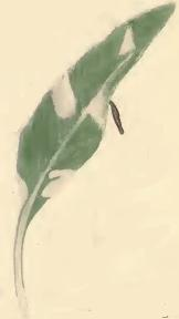 Stainton’s Natural History of the Tineina (1855–1873): Coleophora paripennella mined leaf of Centaurea nigra with attached larva-case